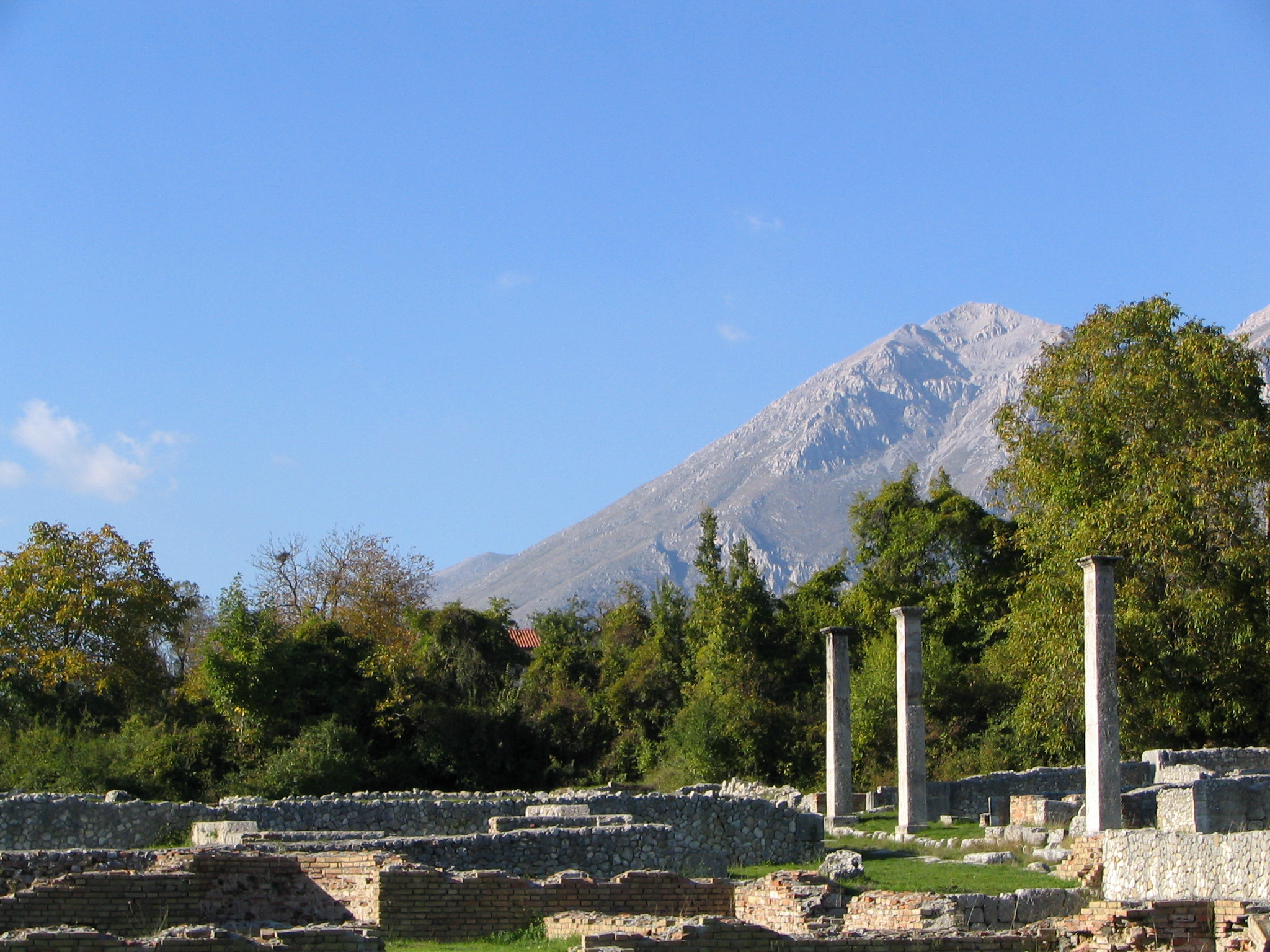 Monte Velino (in the background) overlooks the Roman remains of Alba Fucens, Massa d'Albe, Abruzzo, Italia